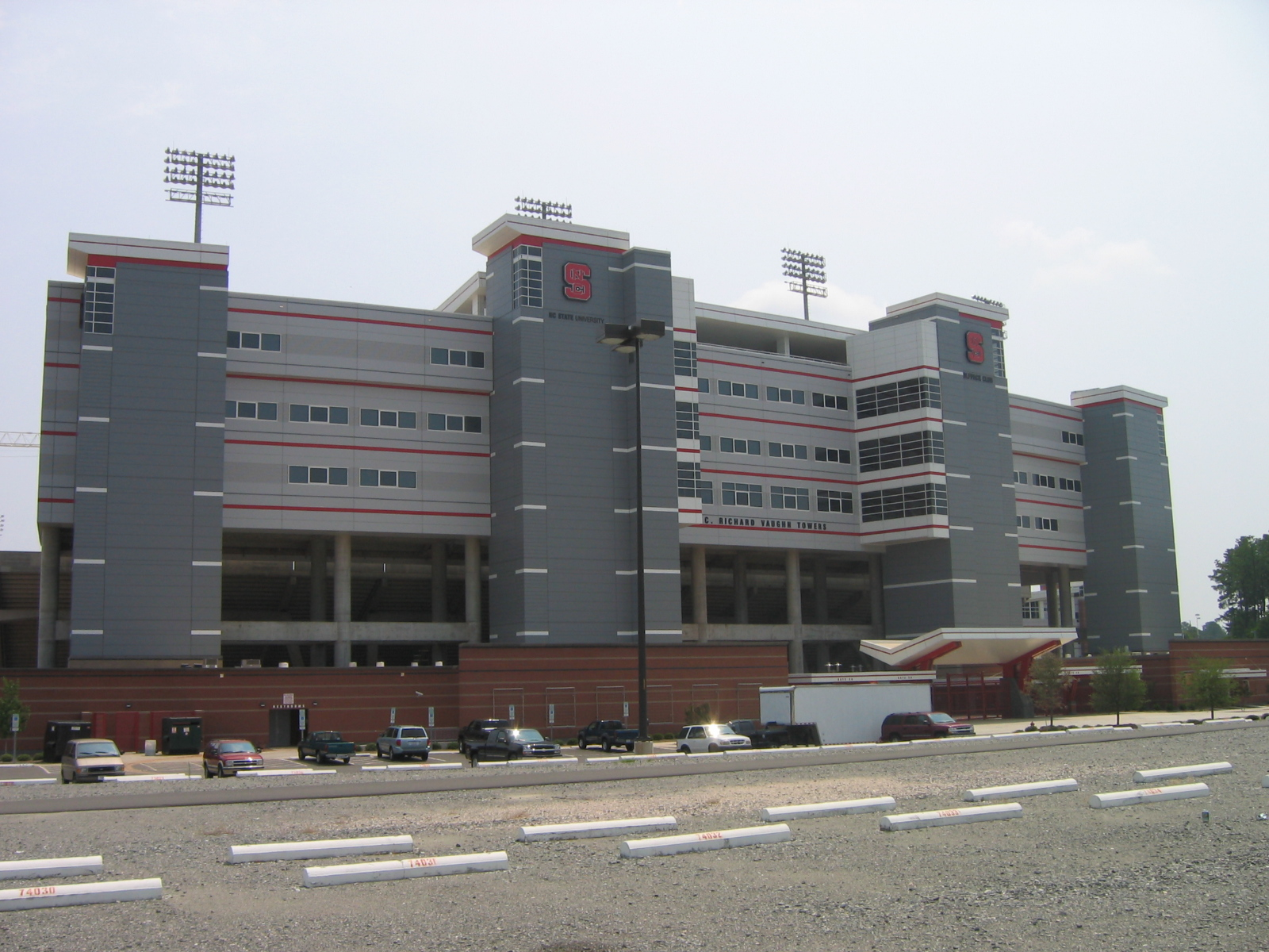 North Carolina State's Carter-Finley Stadium.